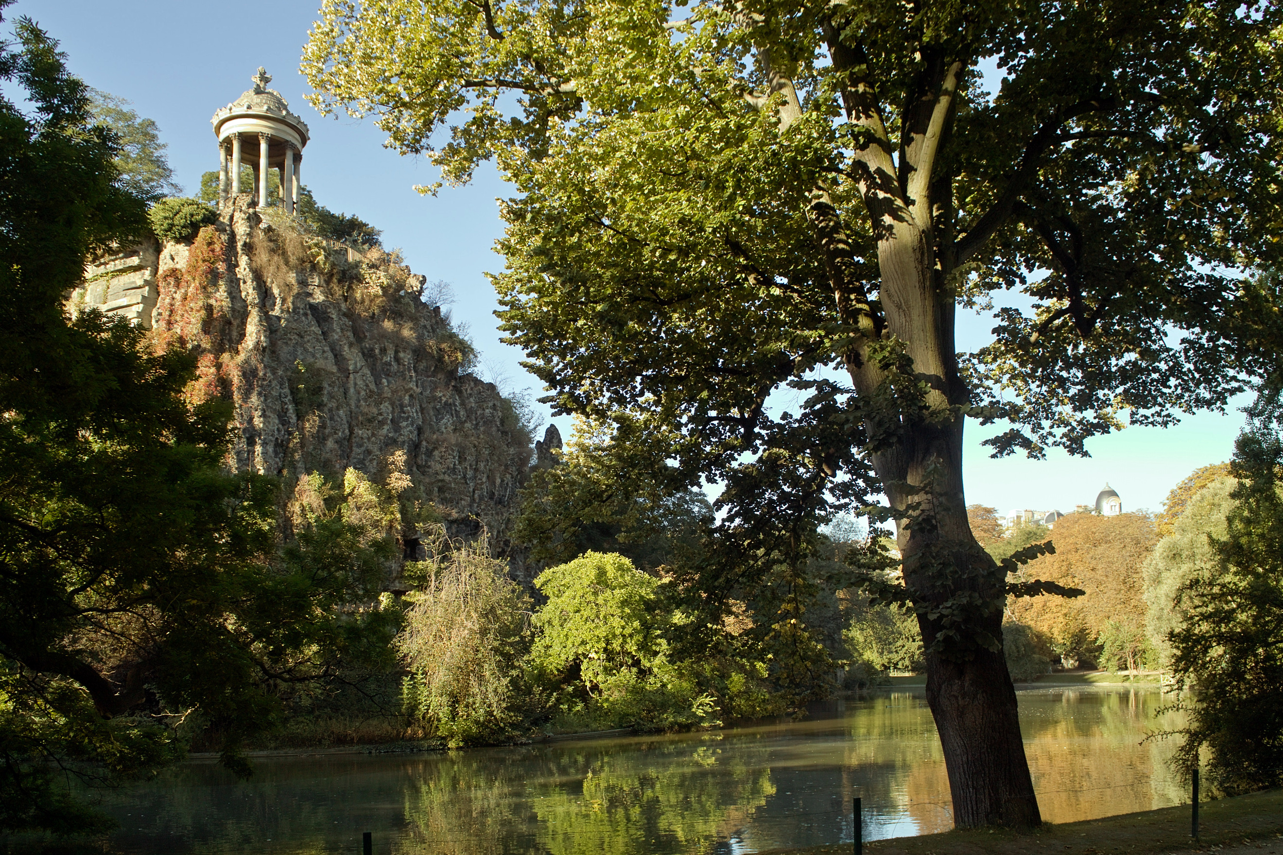 Parc des Buttes-Chaumont, Paris, France